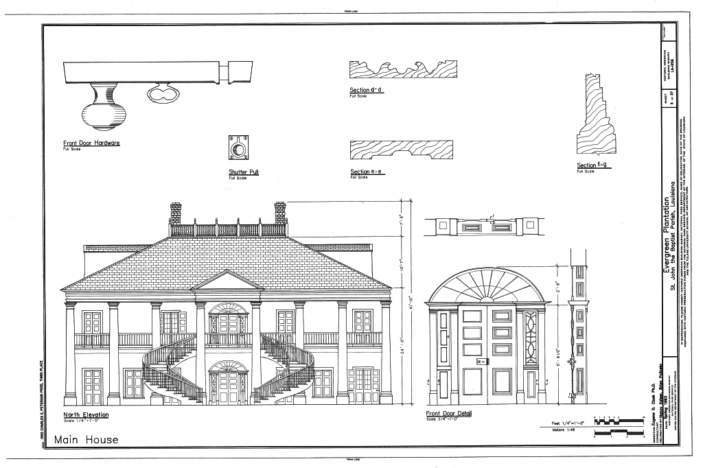 A drawing of Evergreen Plantation in Wallace, Louisiana by the Historic American Buildings Survey. Reduced from the original TIF file. Drawing 3 of 37 [1]. Reuse or reproduction requests credit to "Historic American Buildings Survey, National Park Service; Delineated by Nancy Kaiser, Brian Polinsky (Spring 1993)"